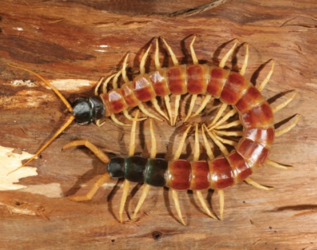 Scolopendra heros showing possible auto mimicry as the ultimate legs and last segments of the trunk mimic the head and antennae.